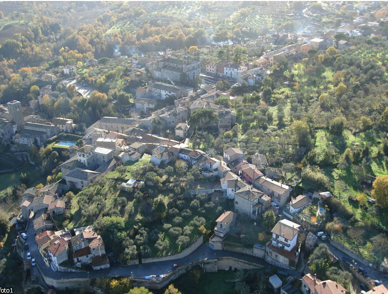 Panoramica Bassano in Teverina